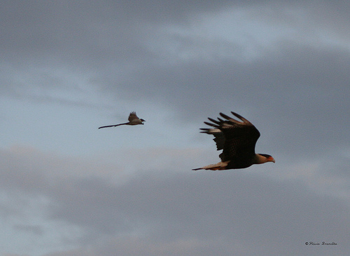 A Fork-tailed Flycatcher (Tyrannus savana) harassing a far larger Southern Caracara (Caracara plancus, syn. Polyborus plancus)